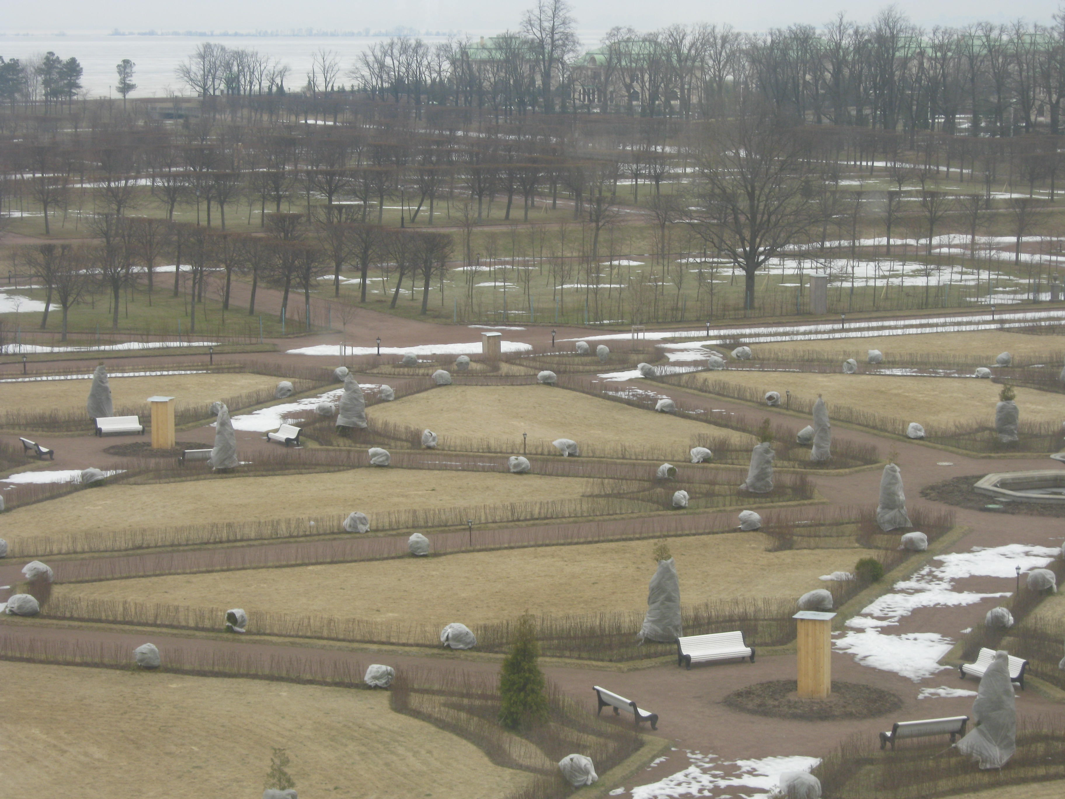 Saint Petersburg (Russia), Strelna, Constantine Palace.